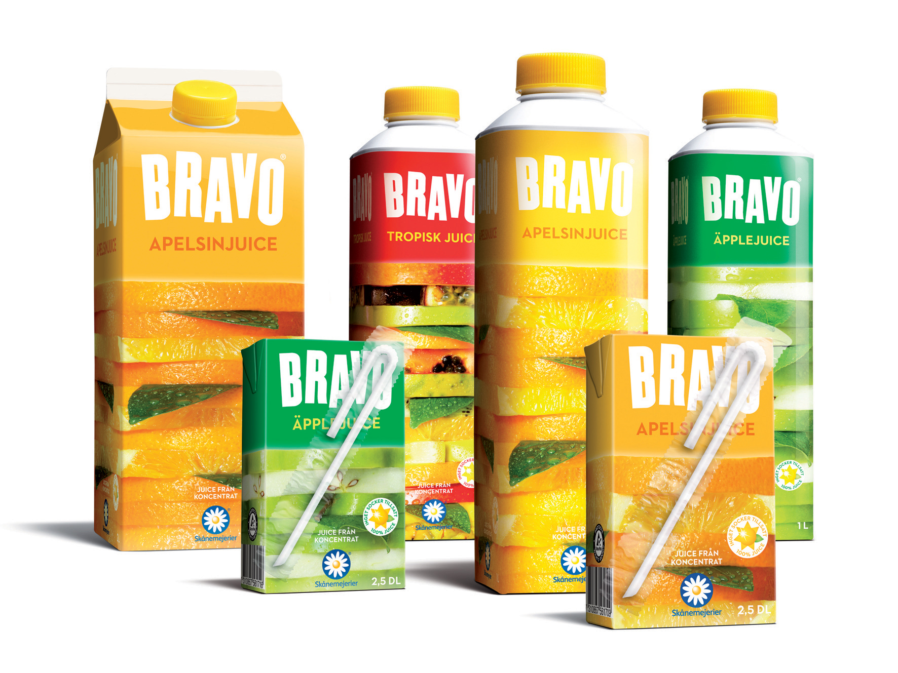 Bravo packages.